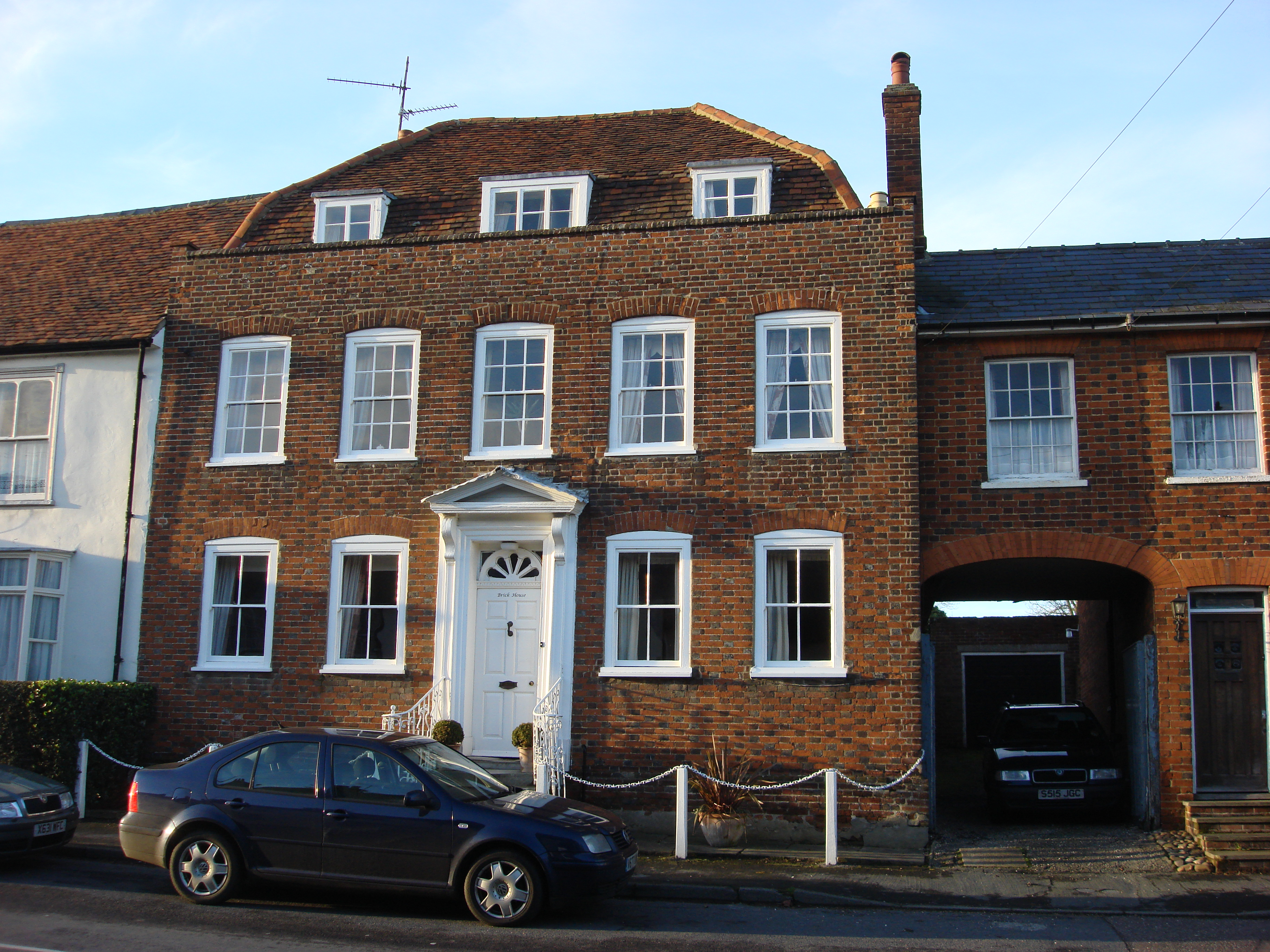 Brick House, Great Bardfield, home of Edward Bawden CBE RA (1903–1989) a British painter, illustrator and graphic artist. During the 1950s the Great Bardfield Artists organised a series of large ‘open house’ exhibitions which attracted national press attention. Positive reviews and the novelty of viewing art works in the artists own homes this included access to Bawden's Brick House.